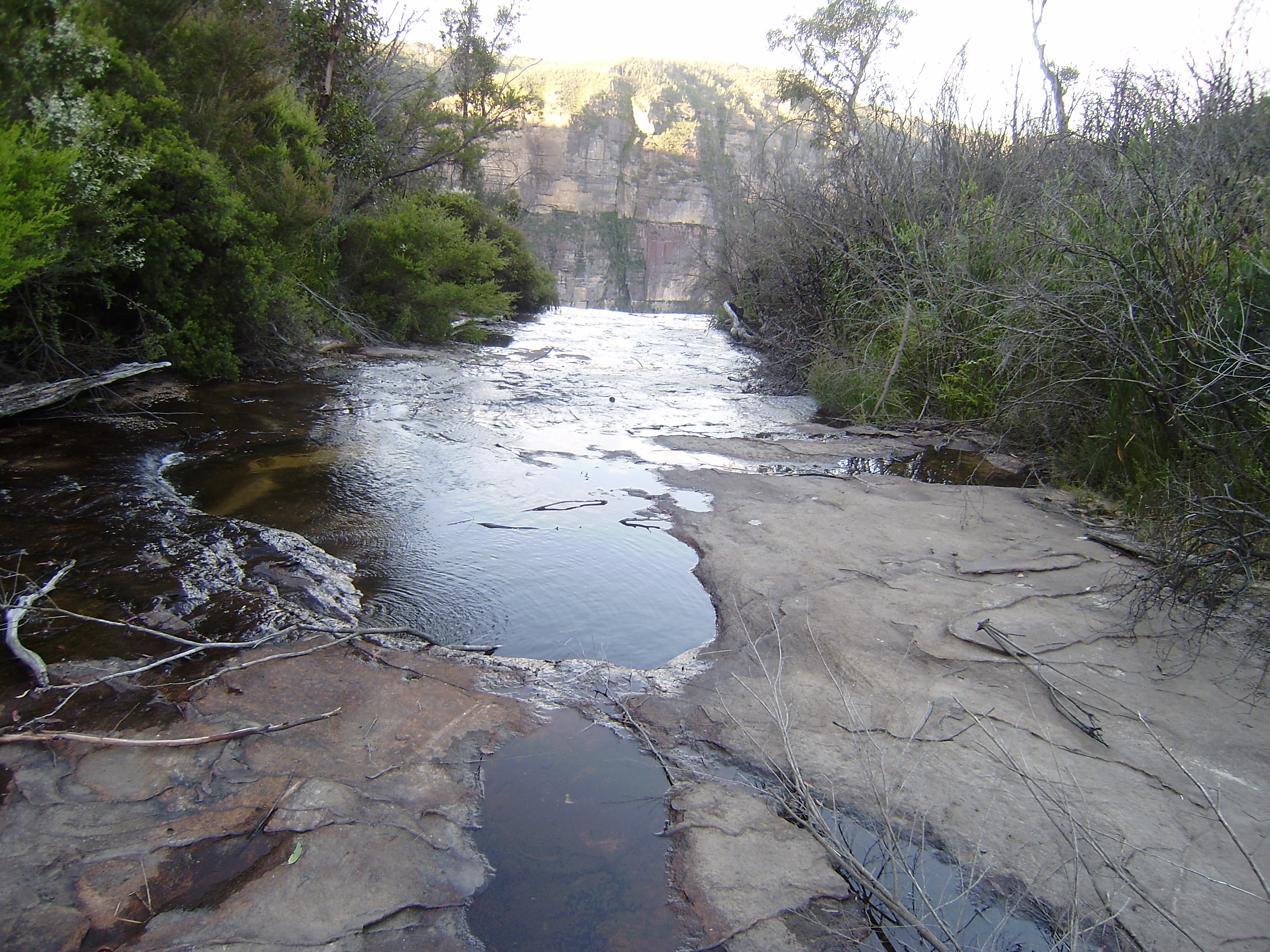 Govetts Leap